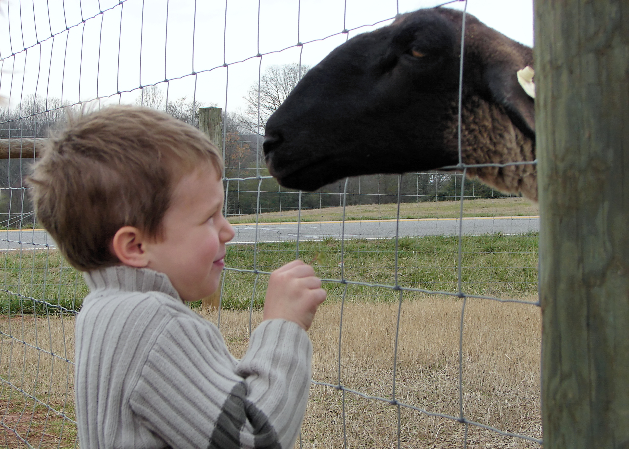 A child and a ewe meet. Sheep often are friendly and curious about even strange people, and usually come to associate people with food.